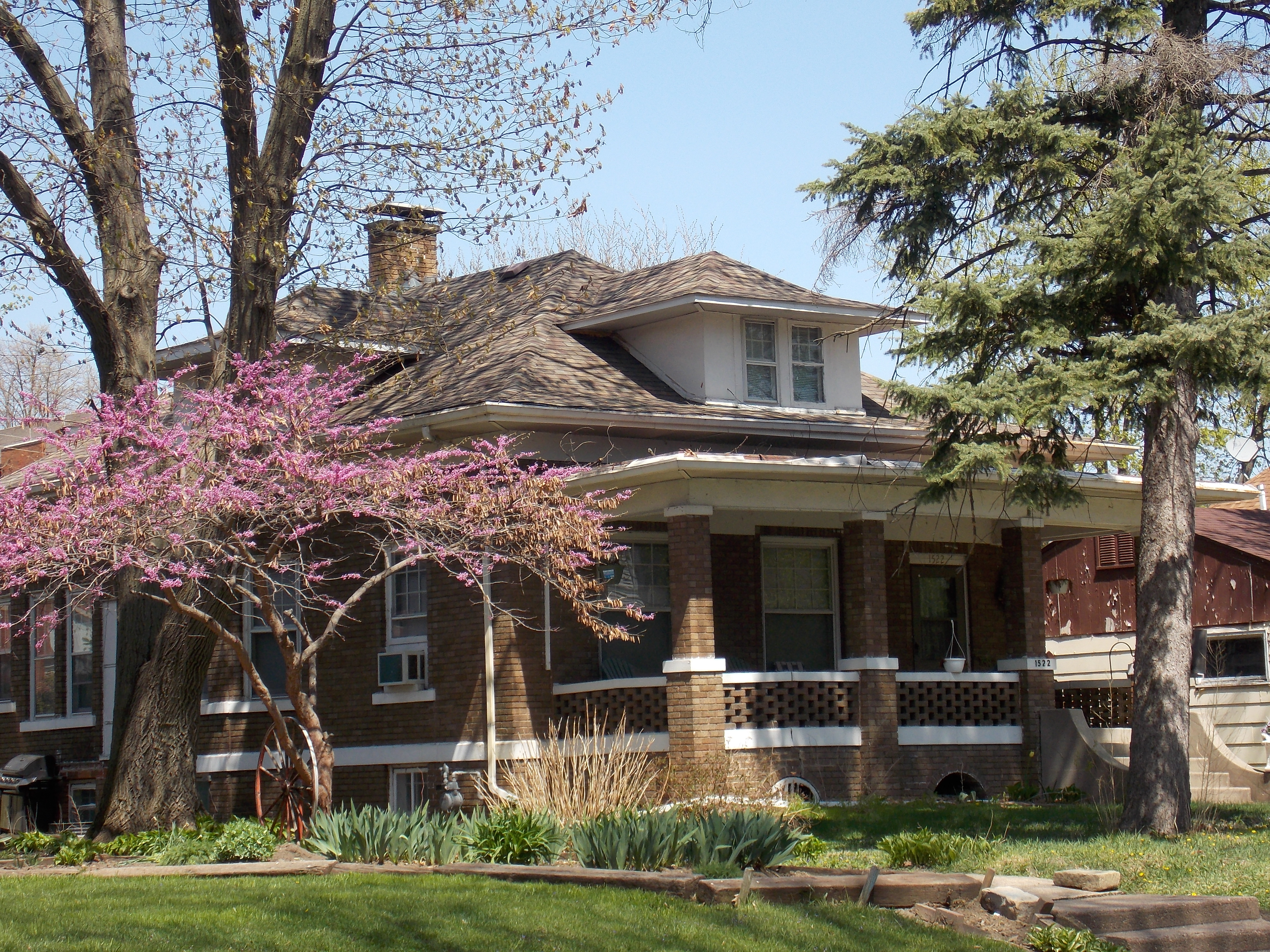 The house at 1522 Clay St. in Davenport, Iowa is a contributing property in the Riverview Terrace Historic District.